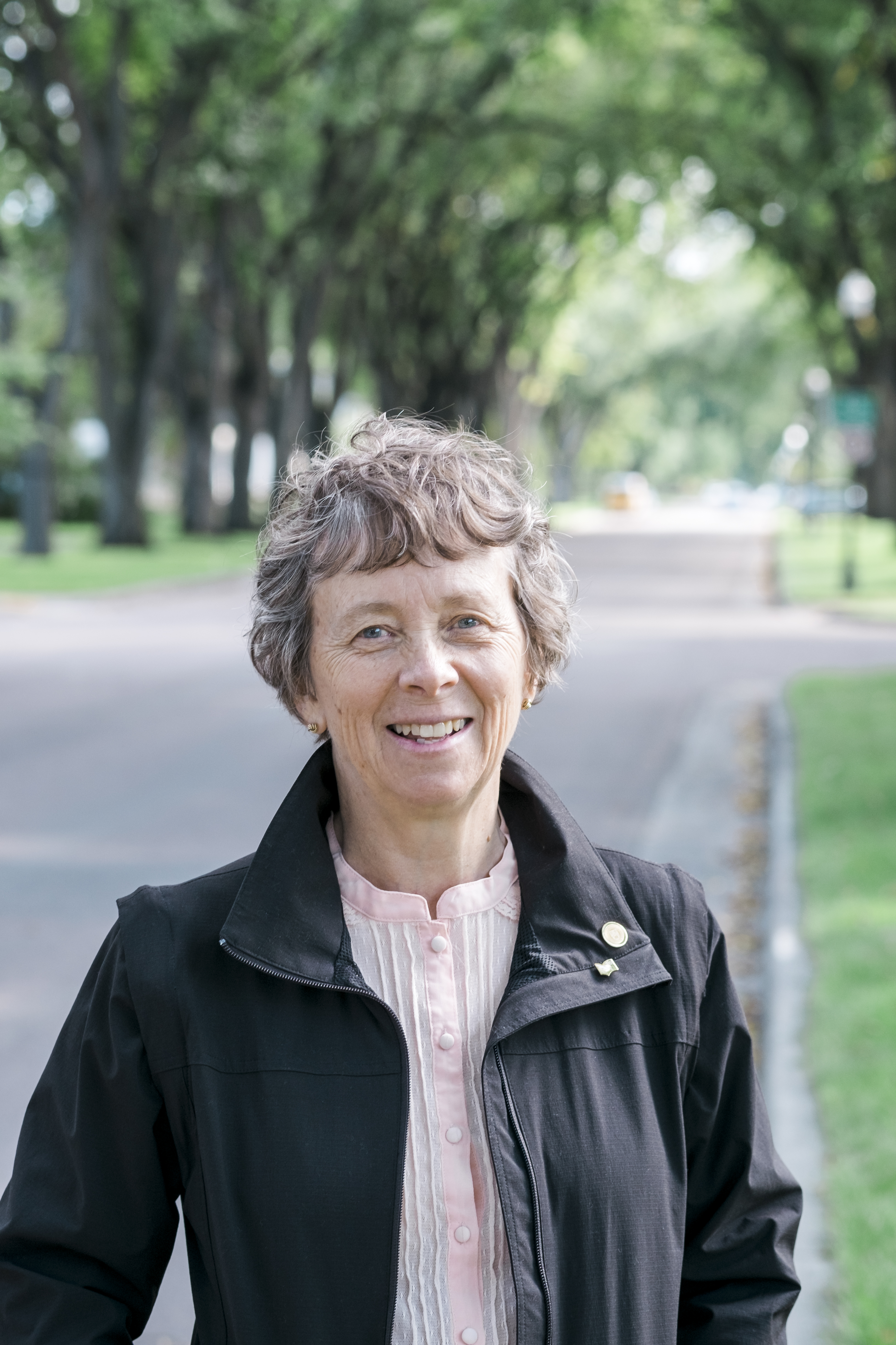 Dr. Elizabeth Rollins Epperly, 2016 Photo by: Jessica Brookes-Parkhill